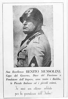 Propaganda poster of Benito Mussolini, with caption "His Excellency Benito Mussolini, Head of Government, Leader of Fascism, and Founder of the Empire..."“His Excellency BENITO MUSSOLINI, chief of government, ʻDuceʼ of Fascism’, and Founder of the Empire, loves a lot the Balilla, the ʻLitte (girl) Italiansʼ and the little Eritreans. I will be a optimal soldierfor the greatness of Italy!”